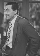 Marcelino Ornat-actor